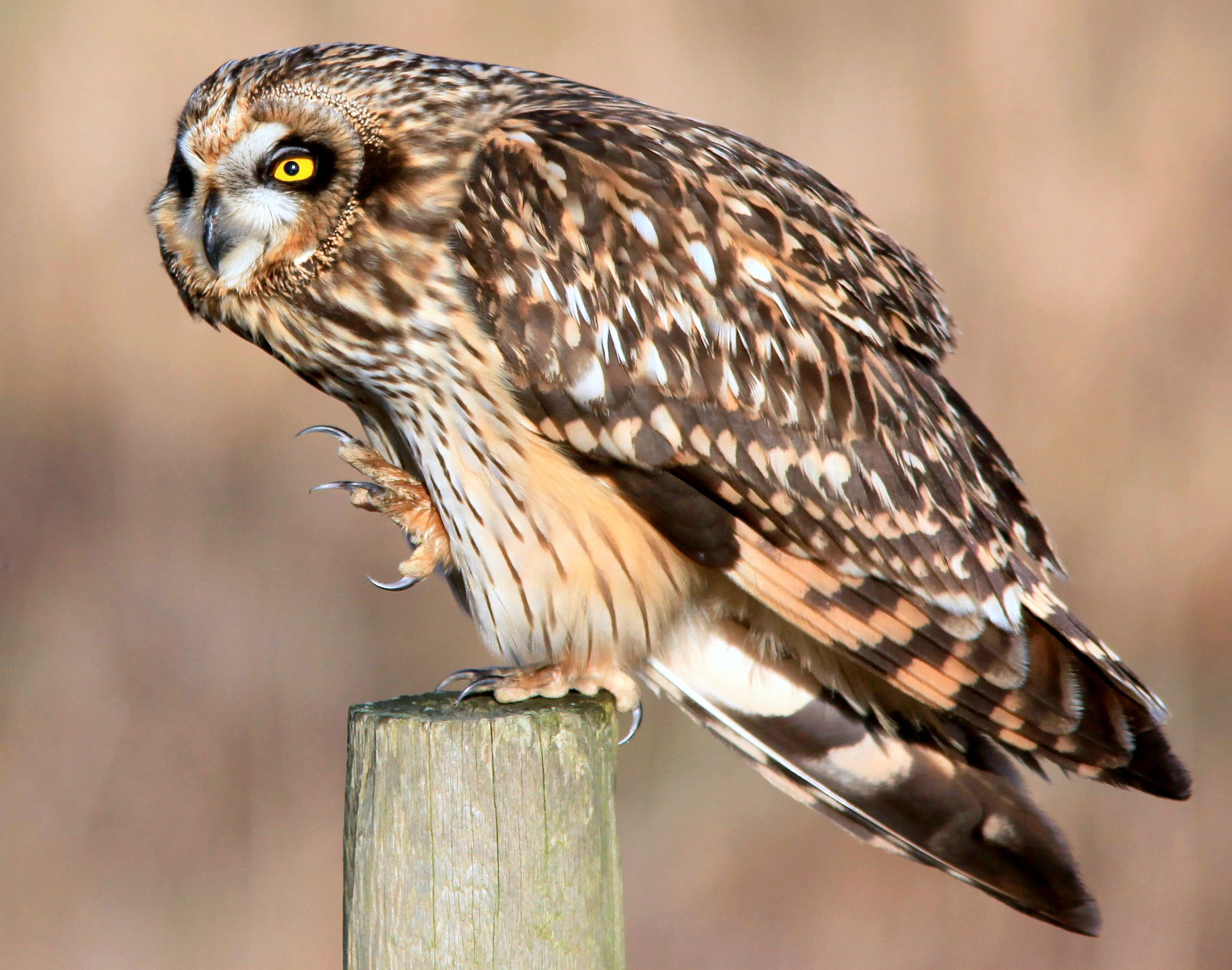 Short-eared Owl Asio flammeus, Delta, British Columbia, Canada.